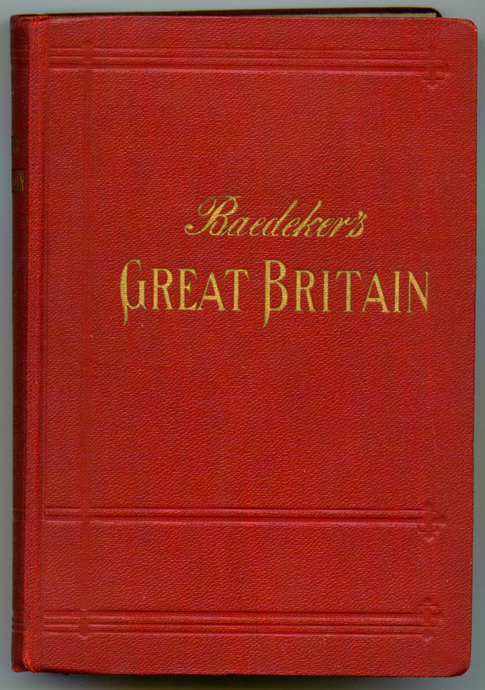 Description: Front cover of 1937 Baedeker travel guide of Great Britain. The format and style is consistent with most other travel guides produced by Baedeker during this period.